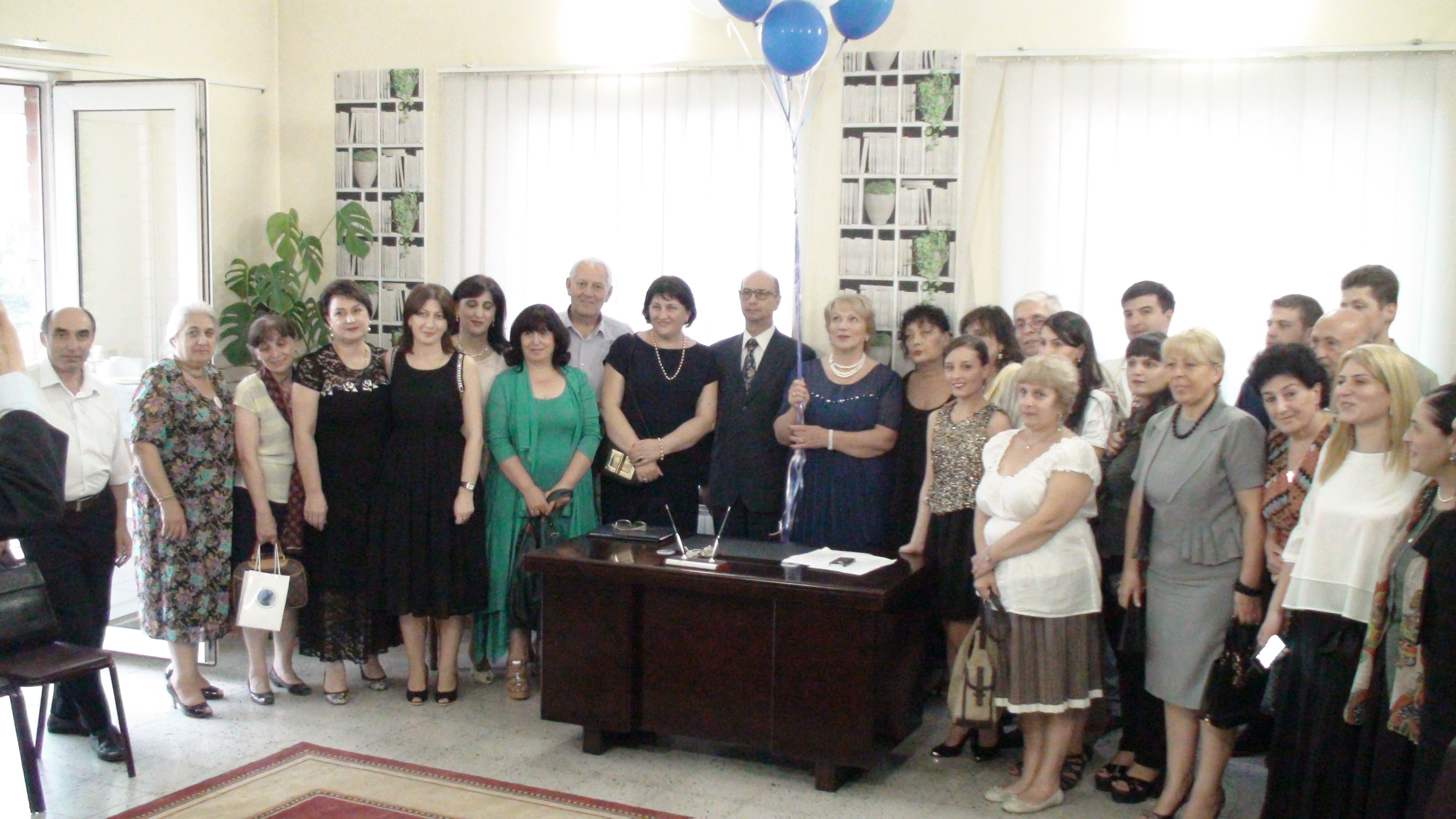 Gorgasali University Professors at the University's 20th anniversary